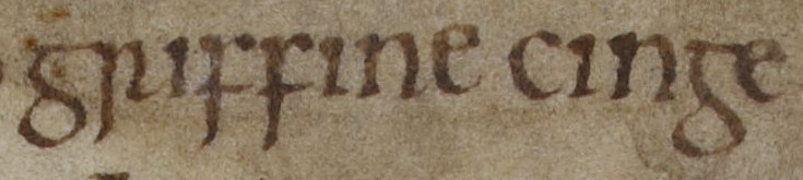 The name of Gruffudd ap Llywelyn (died 1063/1064) as it appears on folio 163r of British Library Cotton MS Tiberius B I (the "C" version of the Anglo-Saxon Chronicle): "Griffine cinge".